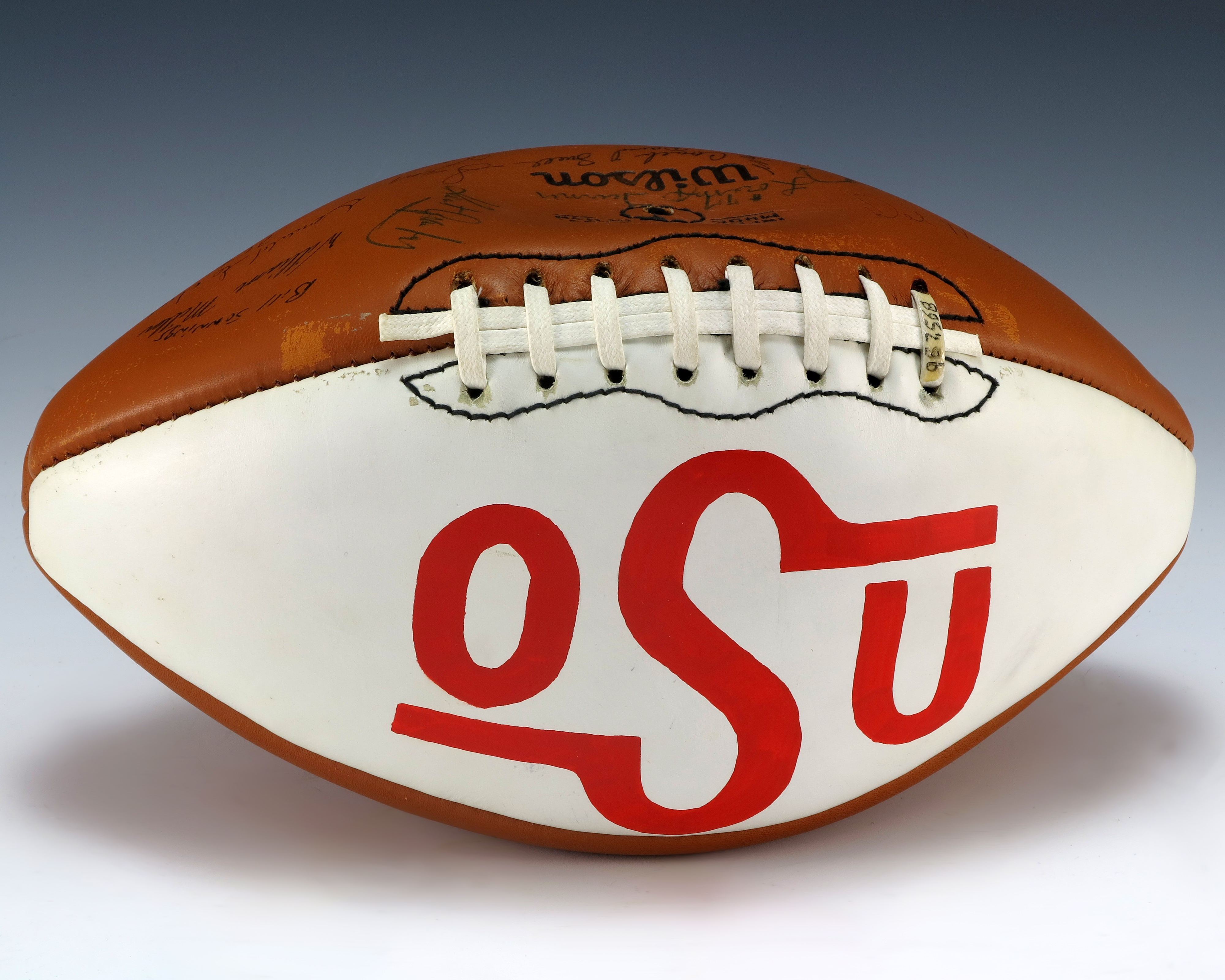 Football signed by the Oklahoma State Cowboys football team and the "OSU" logo printed on the football below the laces.